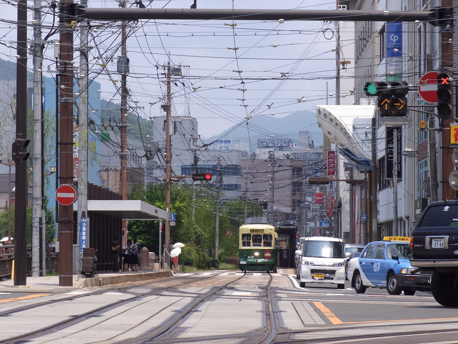 西浜町電停 Nishihama Machi tram stop (Nagasaki Electric Tramway)